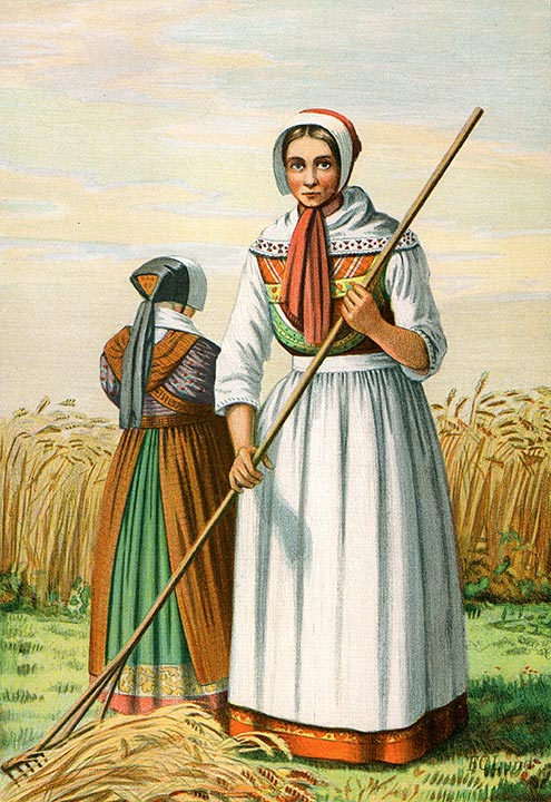 "En Hedebopige" (A Young Girl from Hedebo), lithograph by Danish artist Frederik Christian Lund illustrating a Danish national costume from "Danske Nationaldragter" (1864).